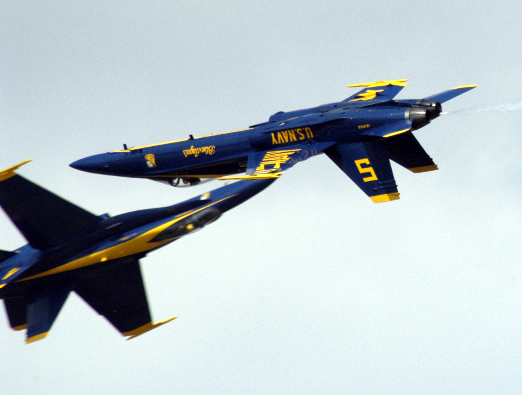 Andrews Air Force Base, Md. (May 14, 2004) – The lead and opposing solo pilots assigned to the U.S. Navy flight demonstration team, the “Blue Angels,” perform a close scissors-cross maneuver in front of the crowds at the 2004 Joint Service Open House. The “Blue Angels” fly the F/A-18A Hornet as they perform approximately 30 maneuvers during the aerial demonstration, which runs approximately an hour and 15 minutes. The Open House, held on May 14-16th at Andrews Air Force Base, Md., showcased civilian and military aircraft from the Nation’s armed forces which provided many flight demonstrations and static displays. U.S. Navy photo by Photographer’s Mate 2nd Class Daniel J. McLain (RELEASED)